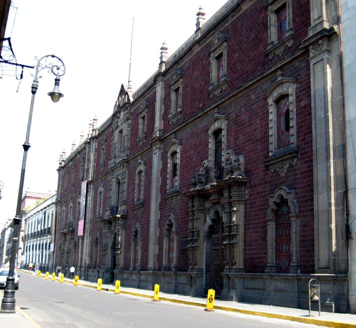 Facade of the Bollivar Amphitheatre on Justo Sierra Street, now the main entrance to the San Ildefonso College Museum in the historic center of Mexico City